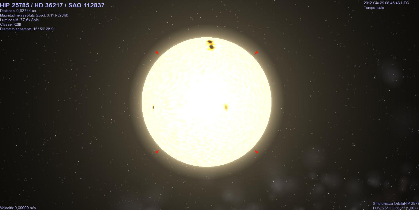 HD 36217 in Celestia